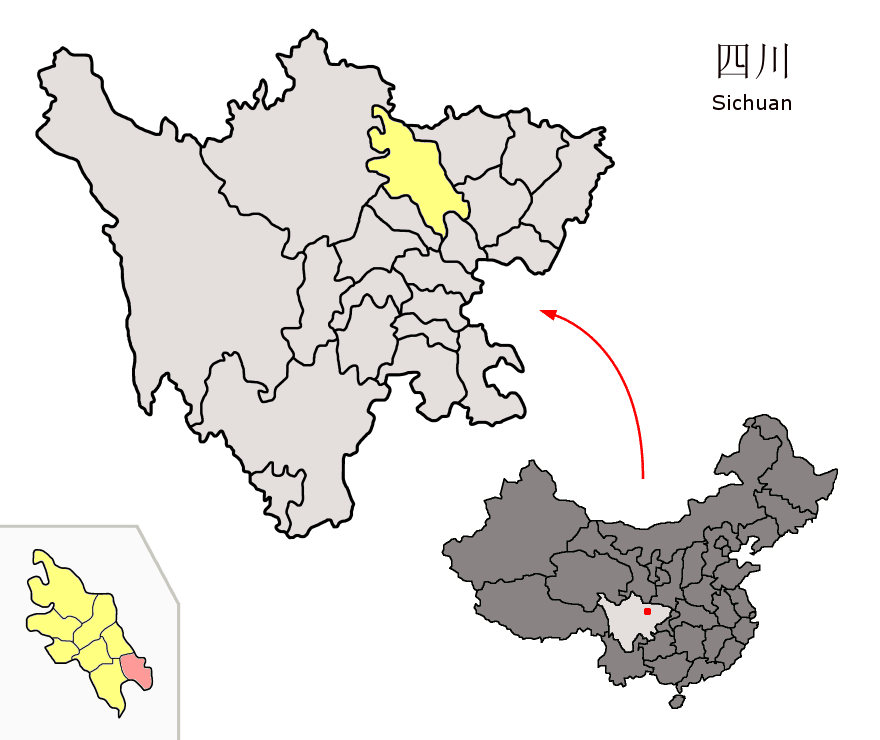 Location of Yanting County (pink) and Mianyang Prefecture (yellow) within Sichuan province of China Map drawn in october 2007 using various sources, mainly : Sichuan province administrative regions GIS data: 1:1M, County level, 1990 Sichuan Counties map from